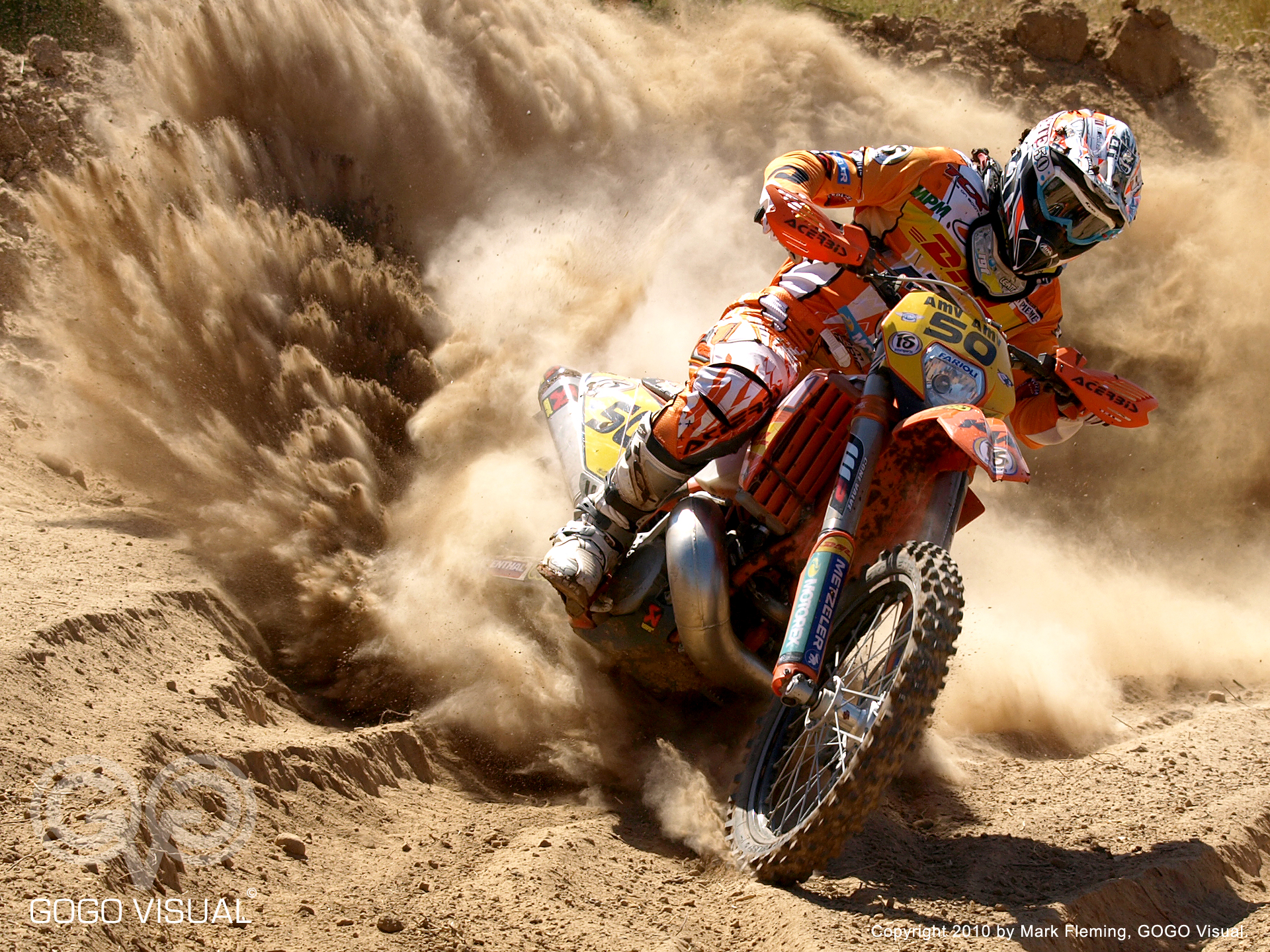 Simone Albergoni rides his KTM E3 bike at the 2010 World Enduro Championship Grand Prix of Turkey.